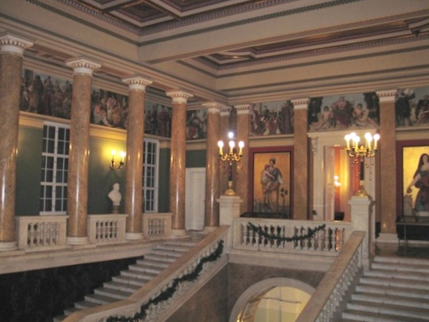 Interiors of Hungarian National Museum